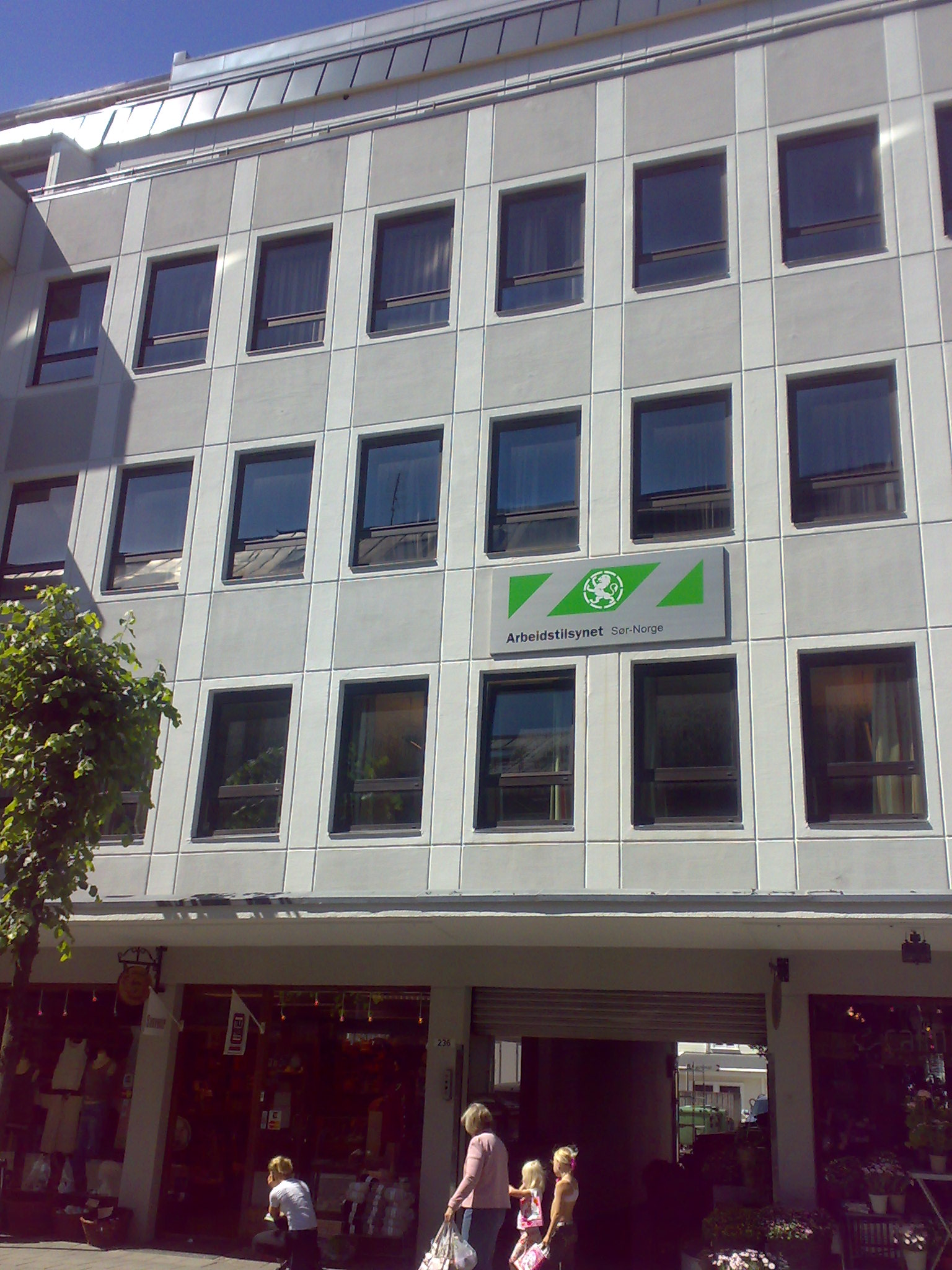 Arbeidstilsynet Soer, Henrik Wergelands Gate 23, Kristiansand, Norway (Labour Inspectorate South)